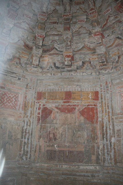 Frescoes and traditional Chinese dougong brackets from the tomb of Song Silang in Luoyang, dated to the Northern Song Dynasty (960–1127)